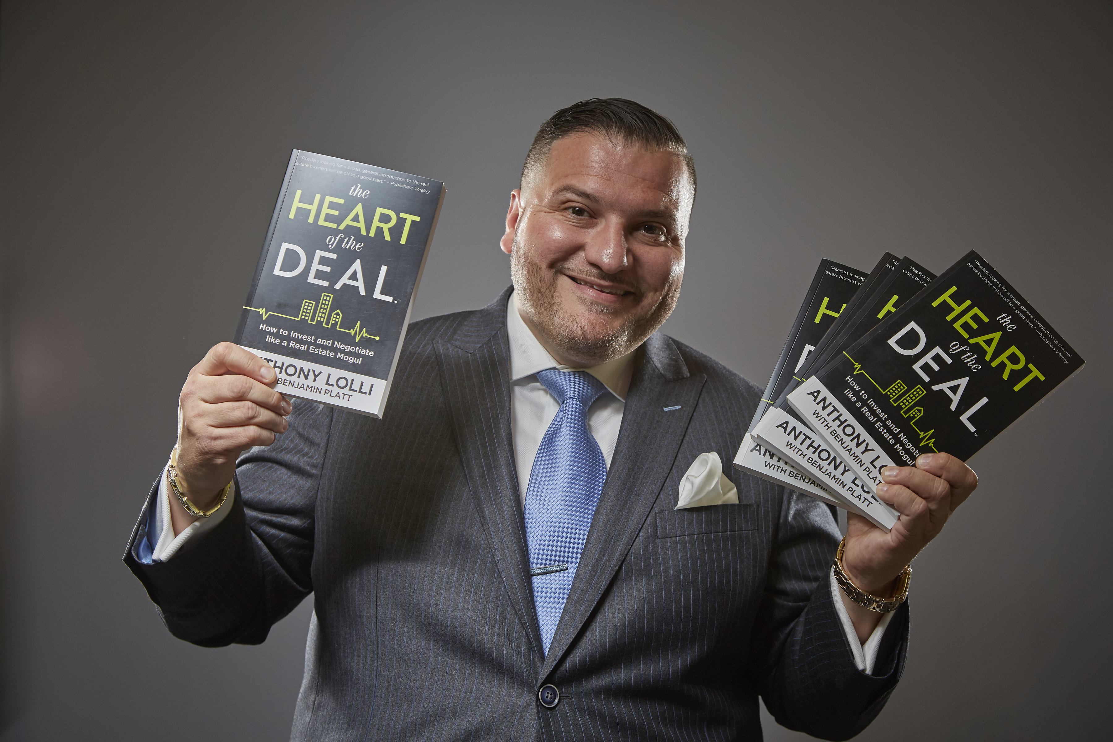 Anthony's book, The Heart of The Deal.